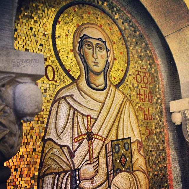 saint Nino #saint #georgia #old #mosaic #church #mtskheta #Icon #orthodox #myphoto #photoshare_everything #detail #insta_global #instagold #ilove #instadaily #instaglobal #instalove #love